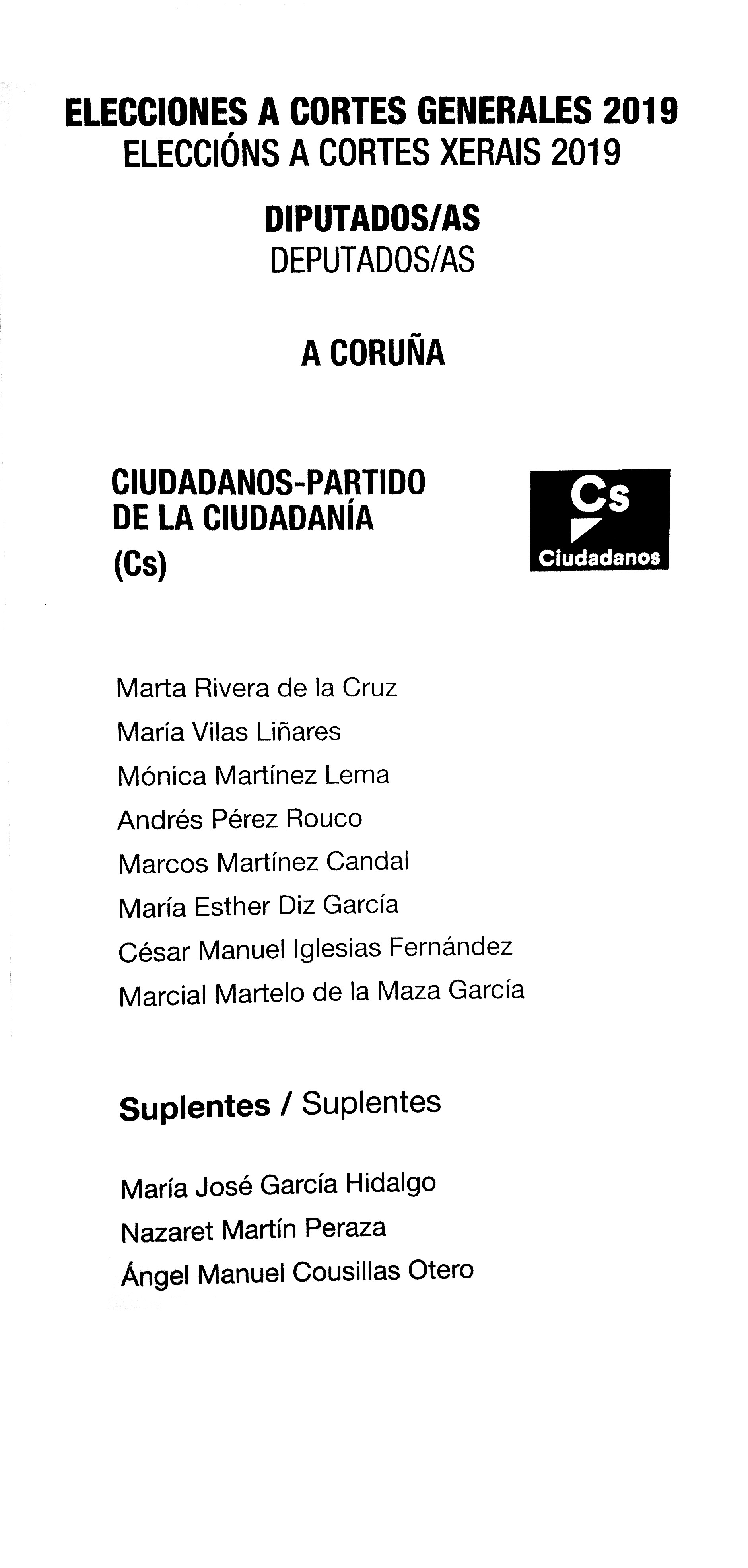 Ballot for Spanish General Elections of April 28th, 2019